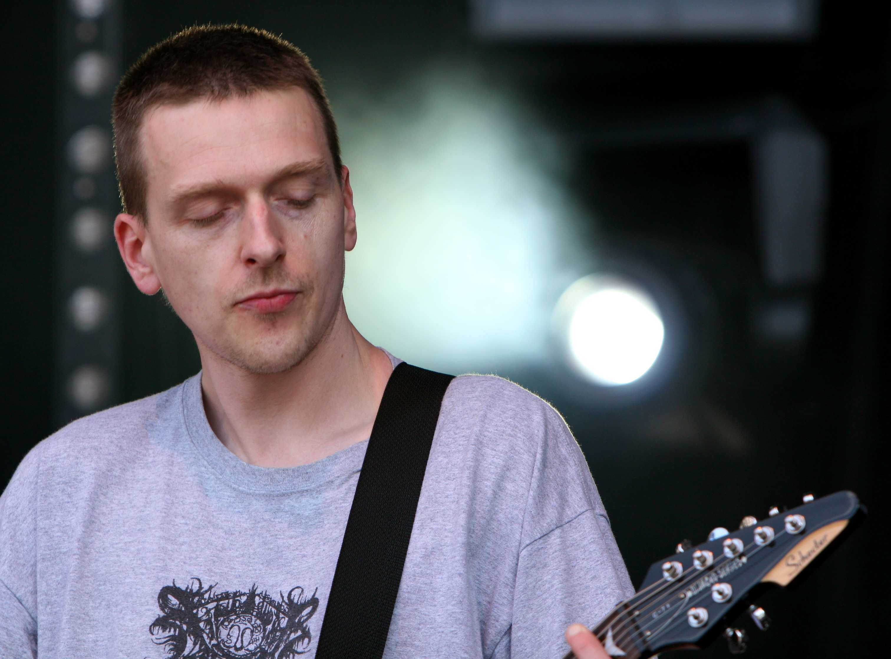 Justin Broadrick of Jesu performing at Primavera Sound in 2009.